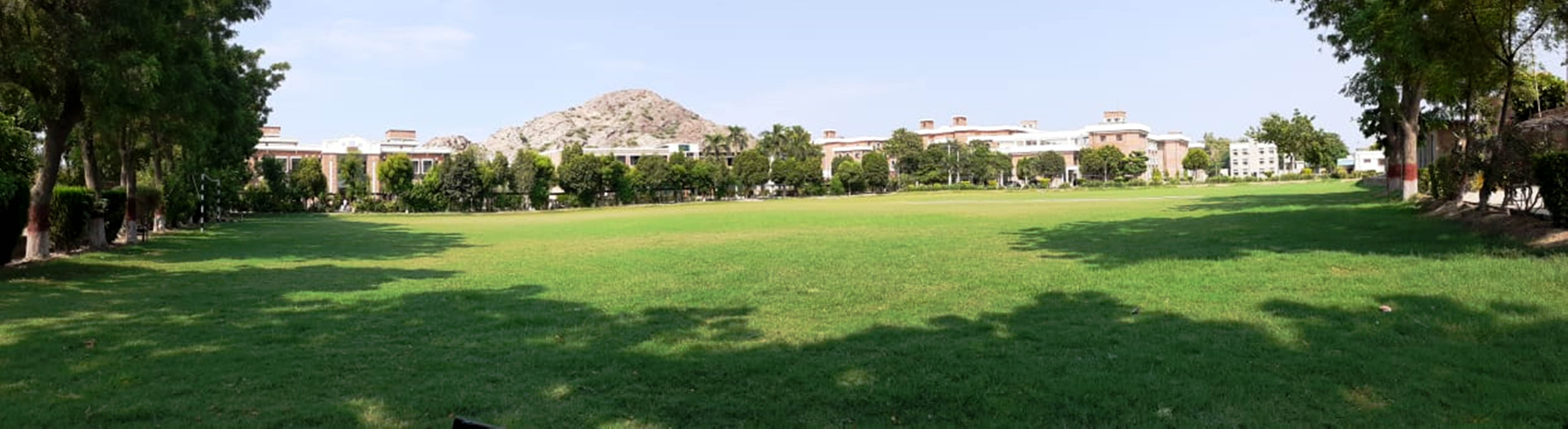 Jamia Ahmadiyya Rabwah Pakistan